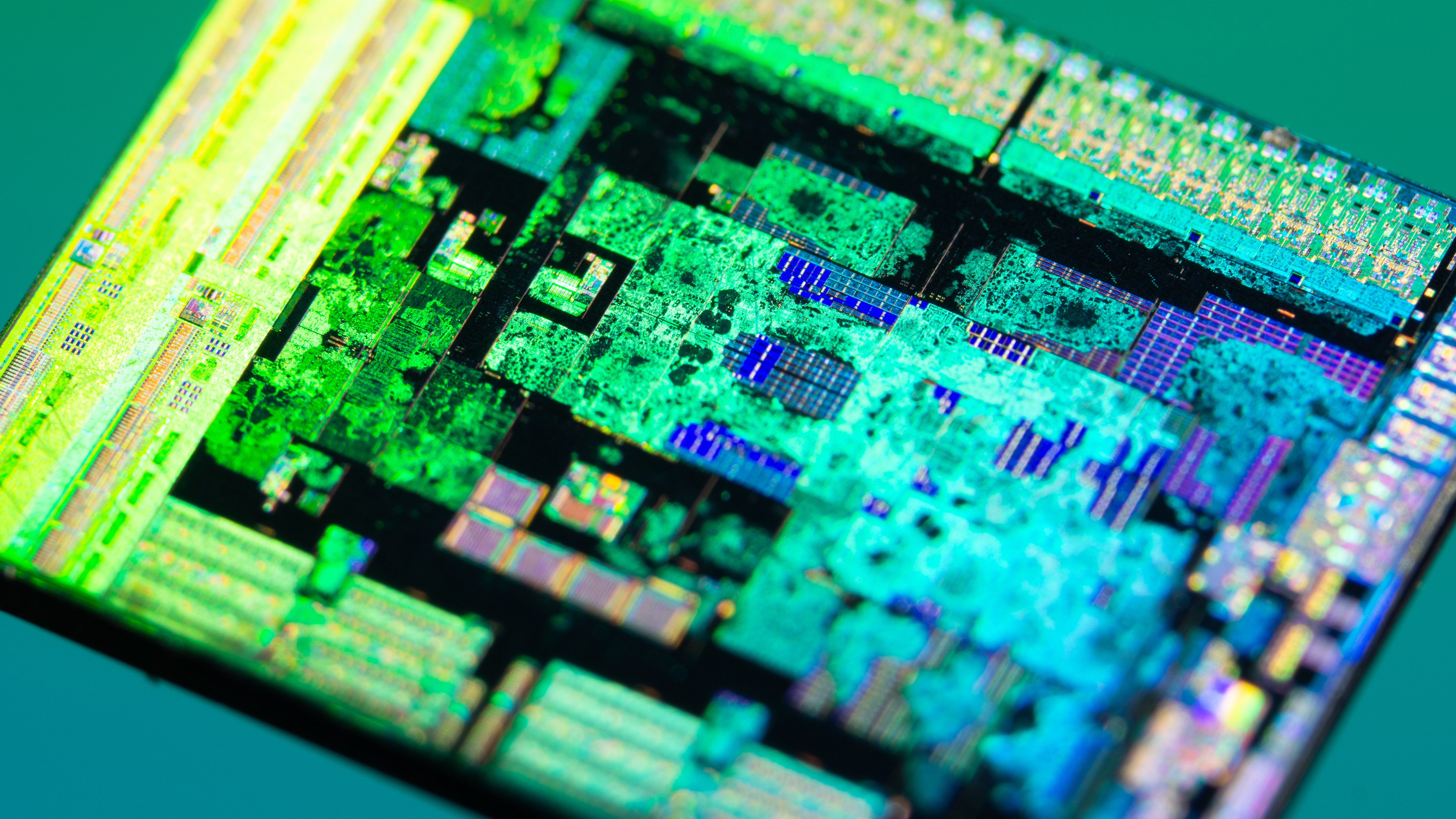 Close up shot of the 7mm die of the AMD Ryzen 5 3600 (Zen 2 | Matisse | IOD)